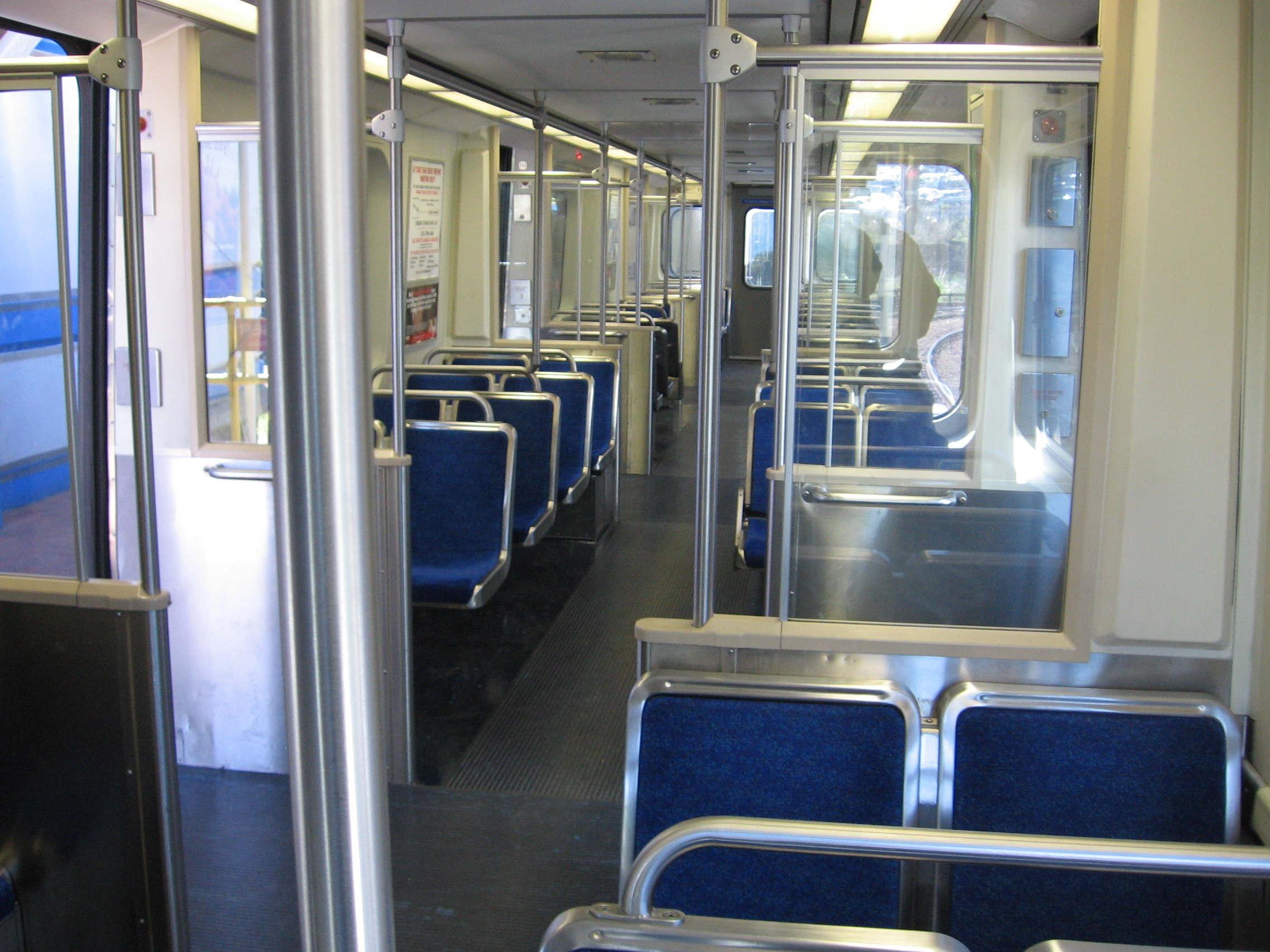 Inside of Market-Frankford Line Car 1016